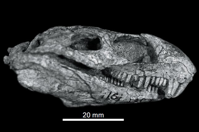 crop of file in file name